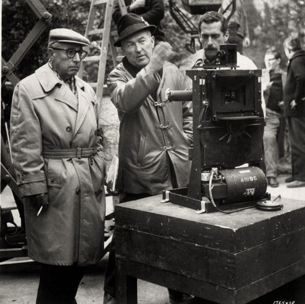 L. to R. : Paul Vogel (cinematographer), George Pal (director-producer) & Tom Conroy on the set of The Wonderful World of the Brothers Grimm - publicity still